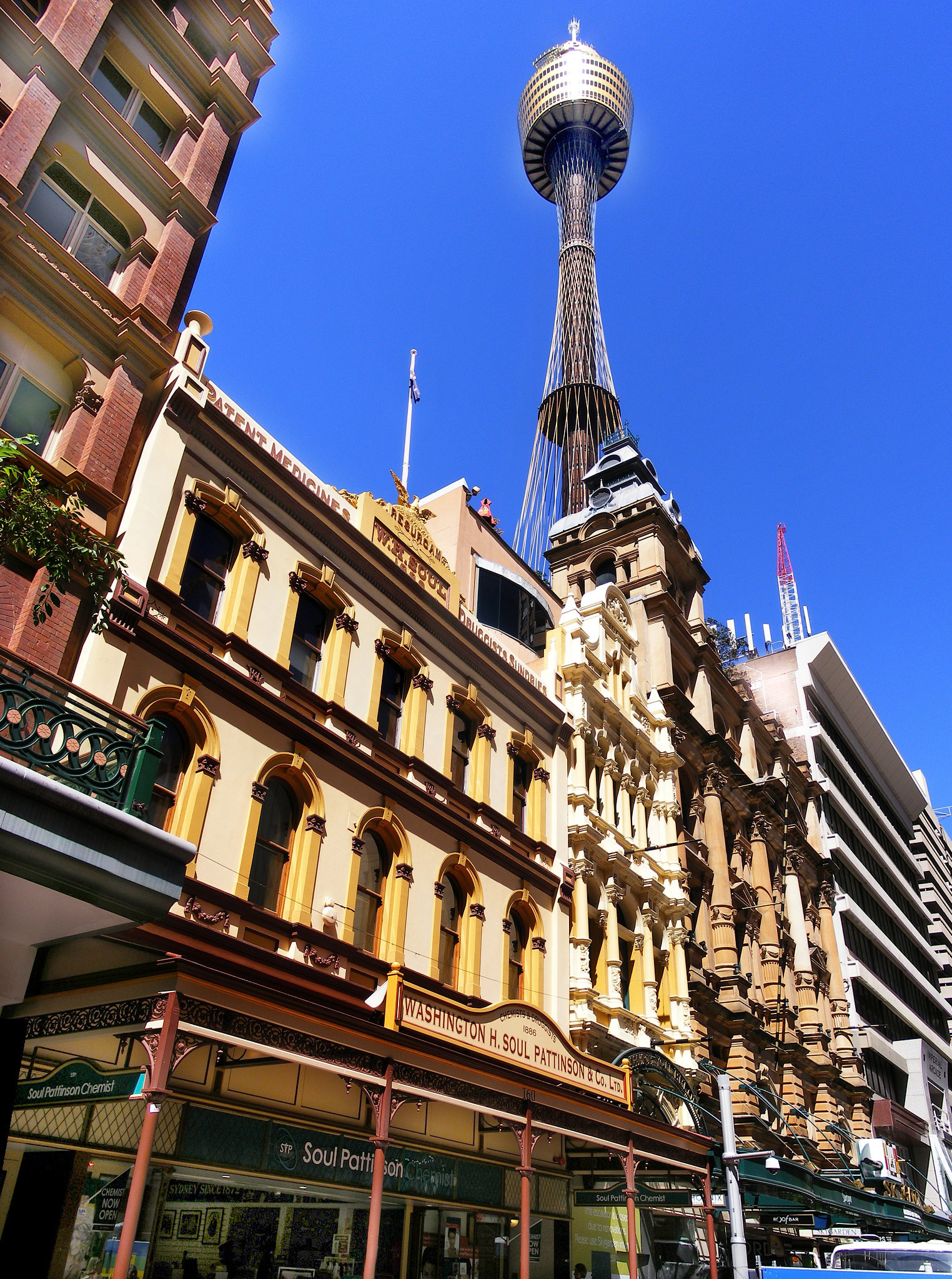 Pitt st Mall and Center point tower in the City of Sydney, Australia